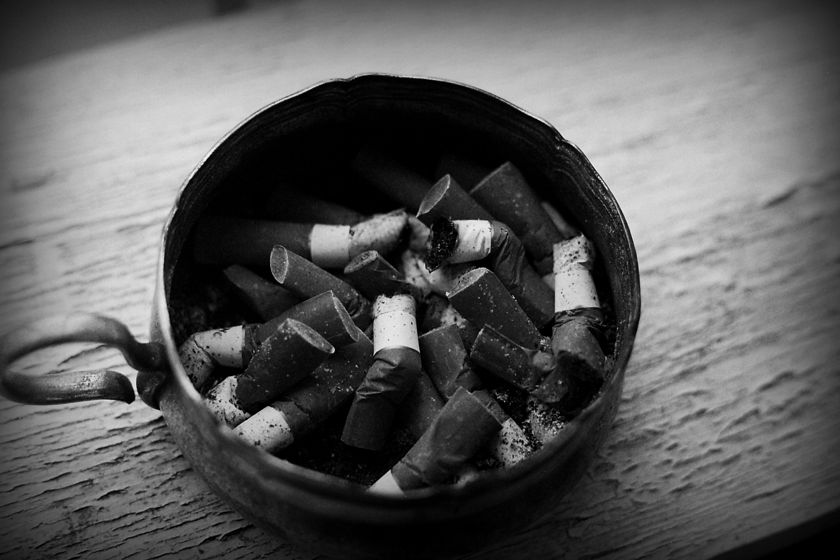 The photography of old-fashioned ashtray with cigarette ends.